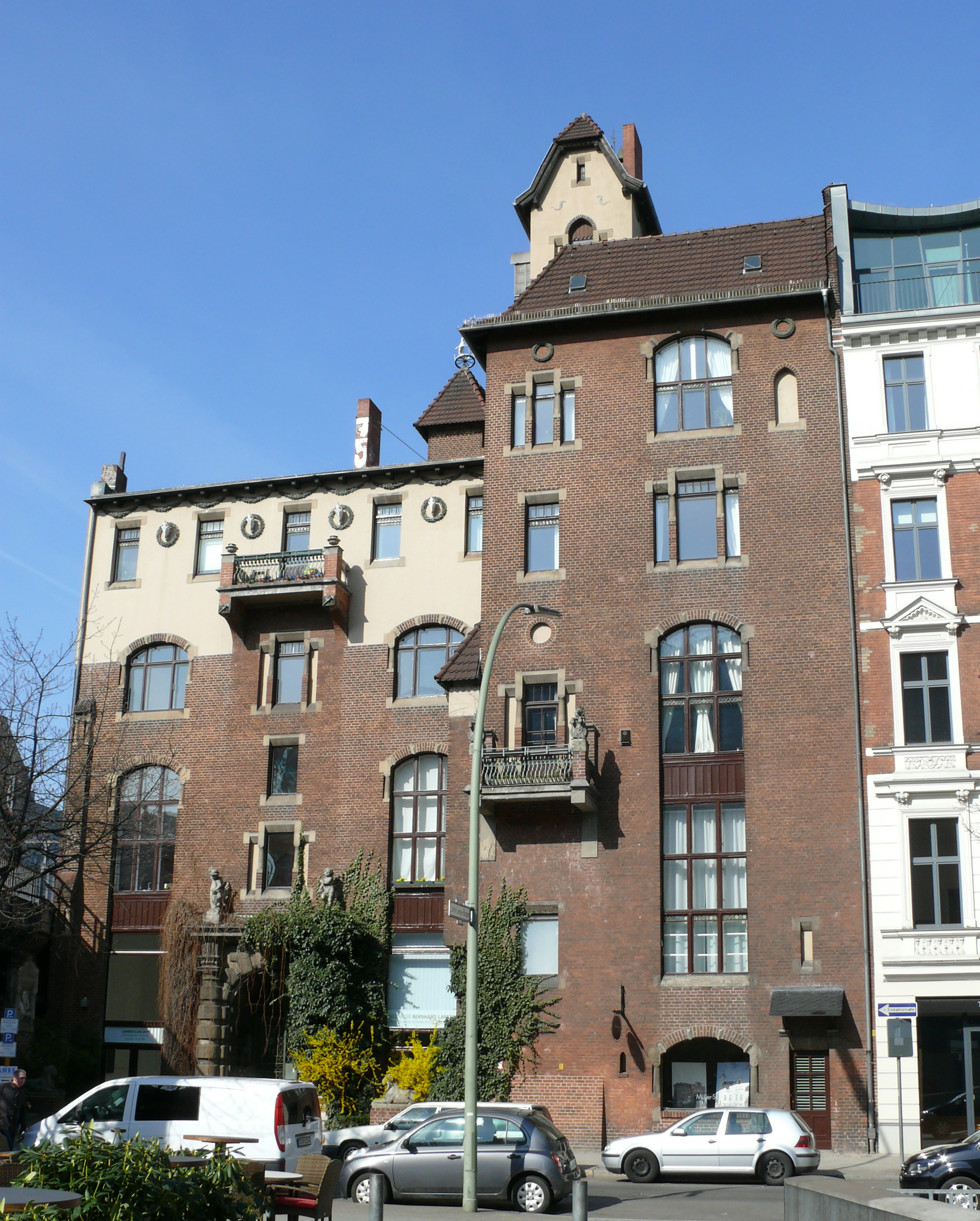 Berlin-Charlottenburg Fasanenstraße